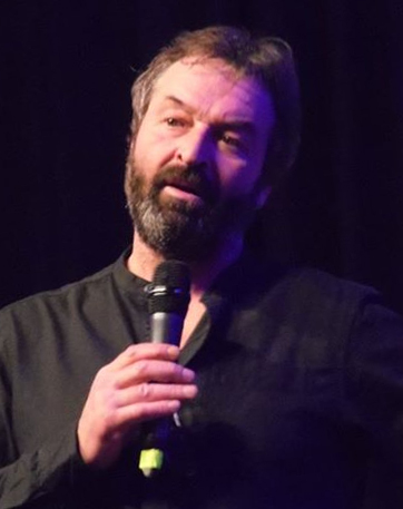 Last ever RingCon… *sniff* But Märrie & I had fun like always, of course. Ian Beattie.